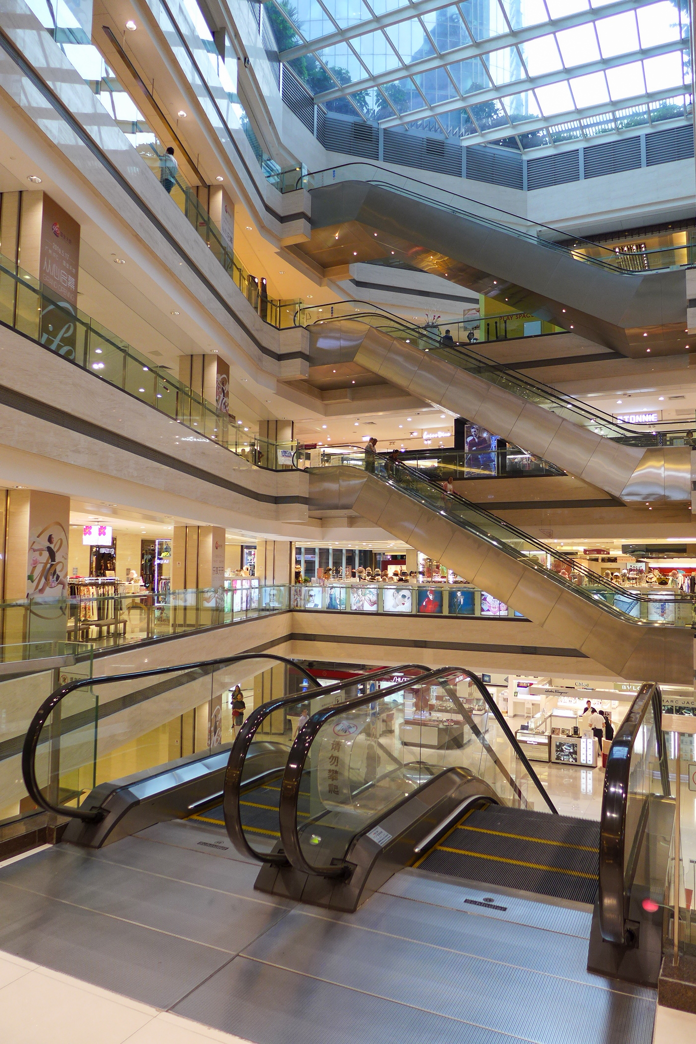 Friendship Store in Guangzhou IFC